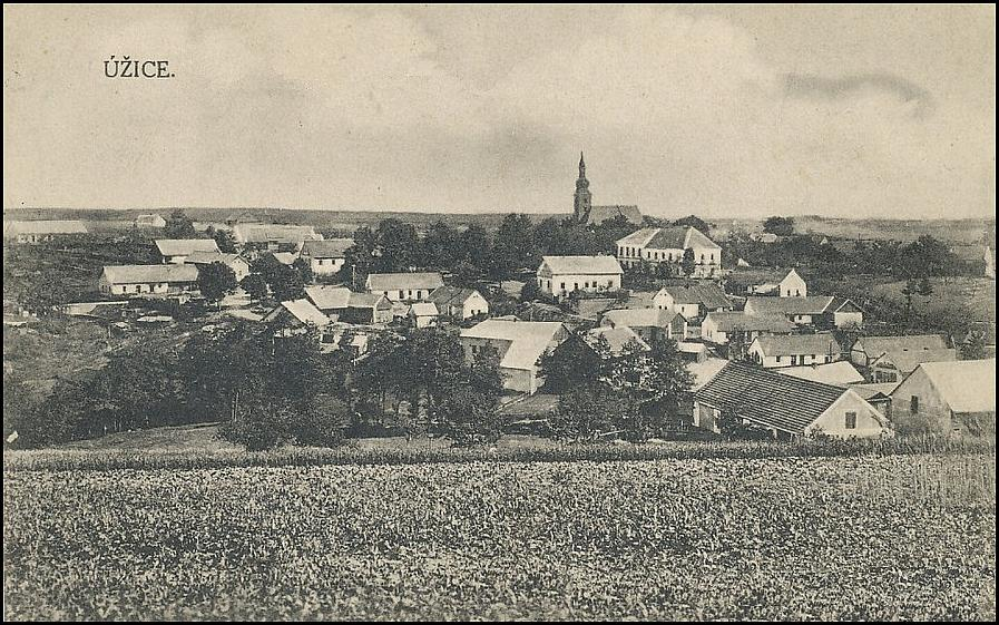 Úžice 1930